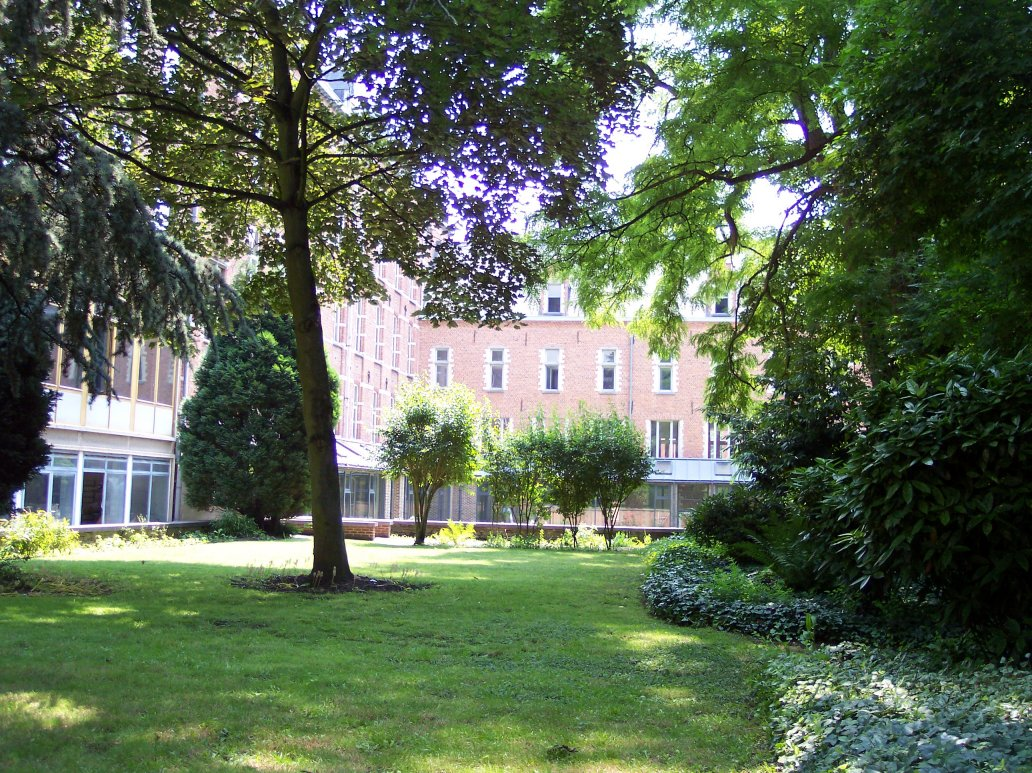 Backyard of the American College, with a view of the College's building through the trees.